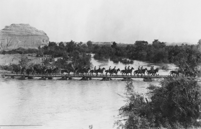 The 5th Australian Light Horse Regiment crossing the pontoon bridge at the Ghoraniye Bridgehead